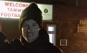 Photo taken by myself of Kyle Storer following the Tamworth Vs. Tamworth game on January 21 2020 at The Lamb Ground.